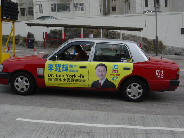 香港的士的車身廣告。The advertisement on Hong Kong taxi, Hong Kong.